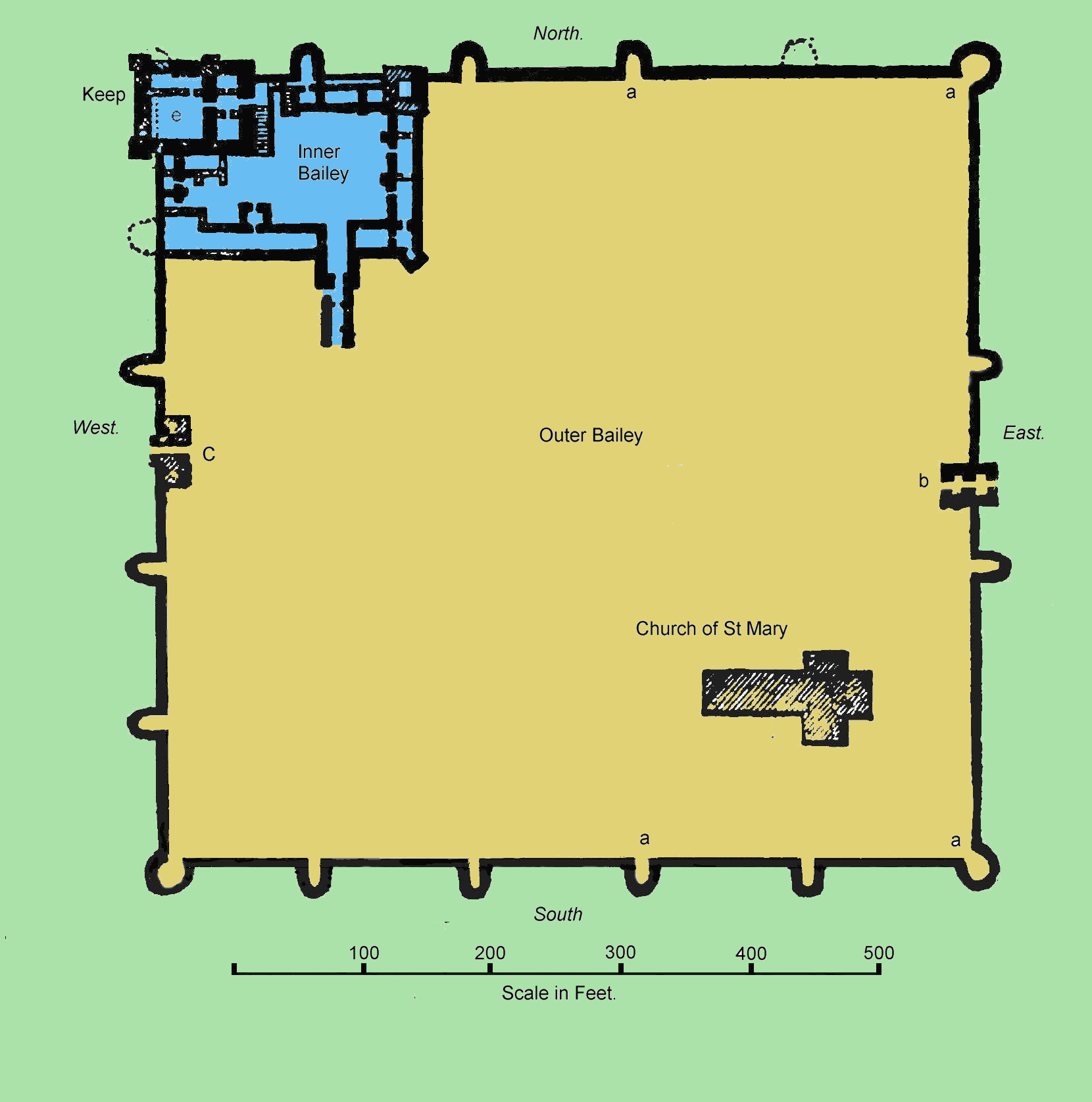 Plan of Portchester Castle